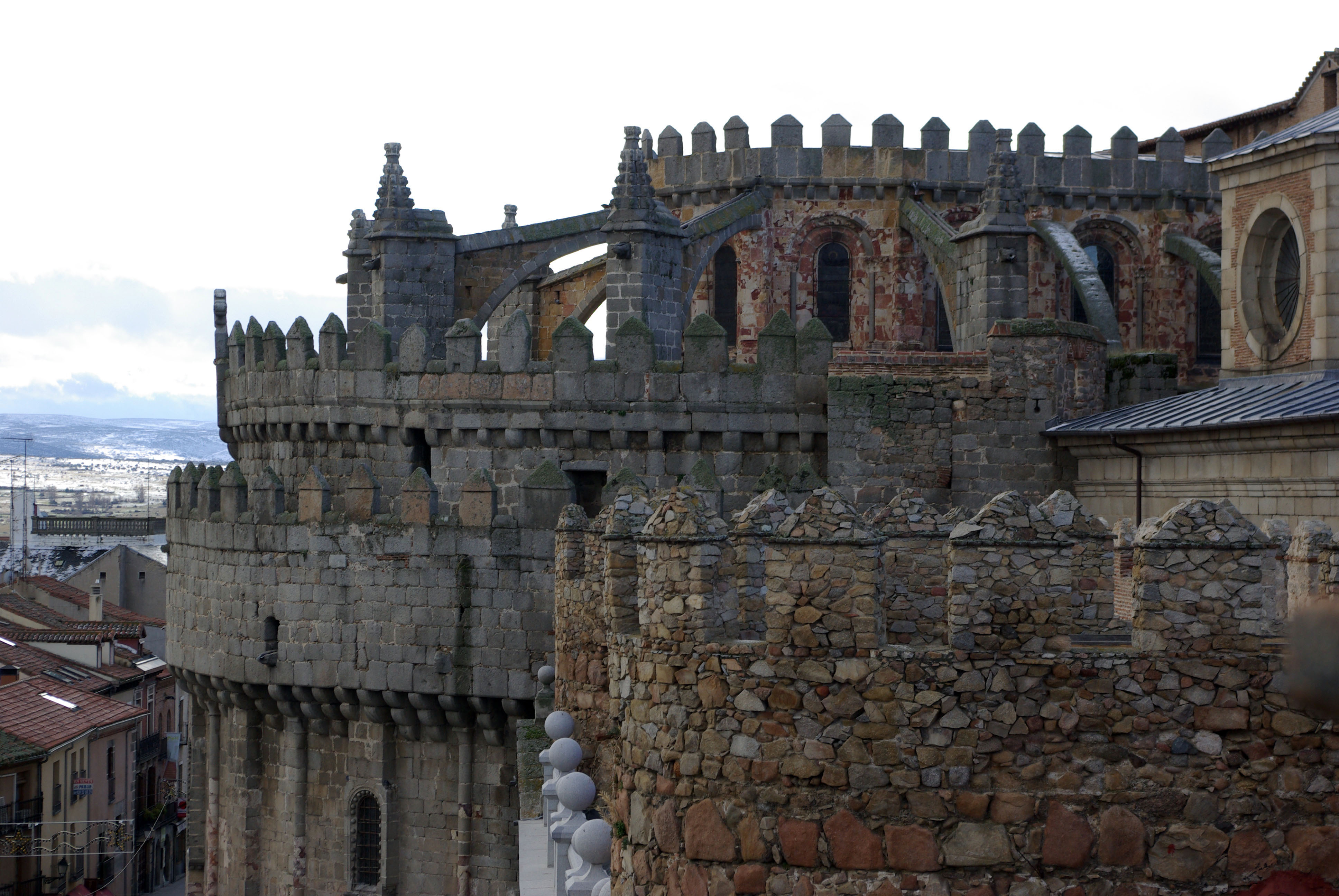 Cathedral of Salvador of Ávila, Ávila (Spain). View of the apse from the east face of the walls. The first gothic cathedral in Spain. Built between XIII and XV centuries. It was begun by Fruchel master.